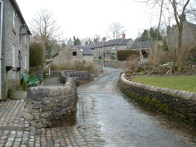 Butterton Village Ford. The Hoo Brook flows across the road.